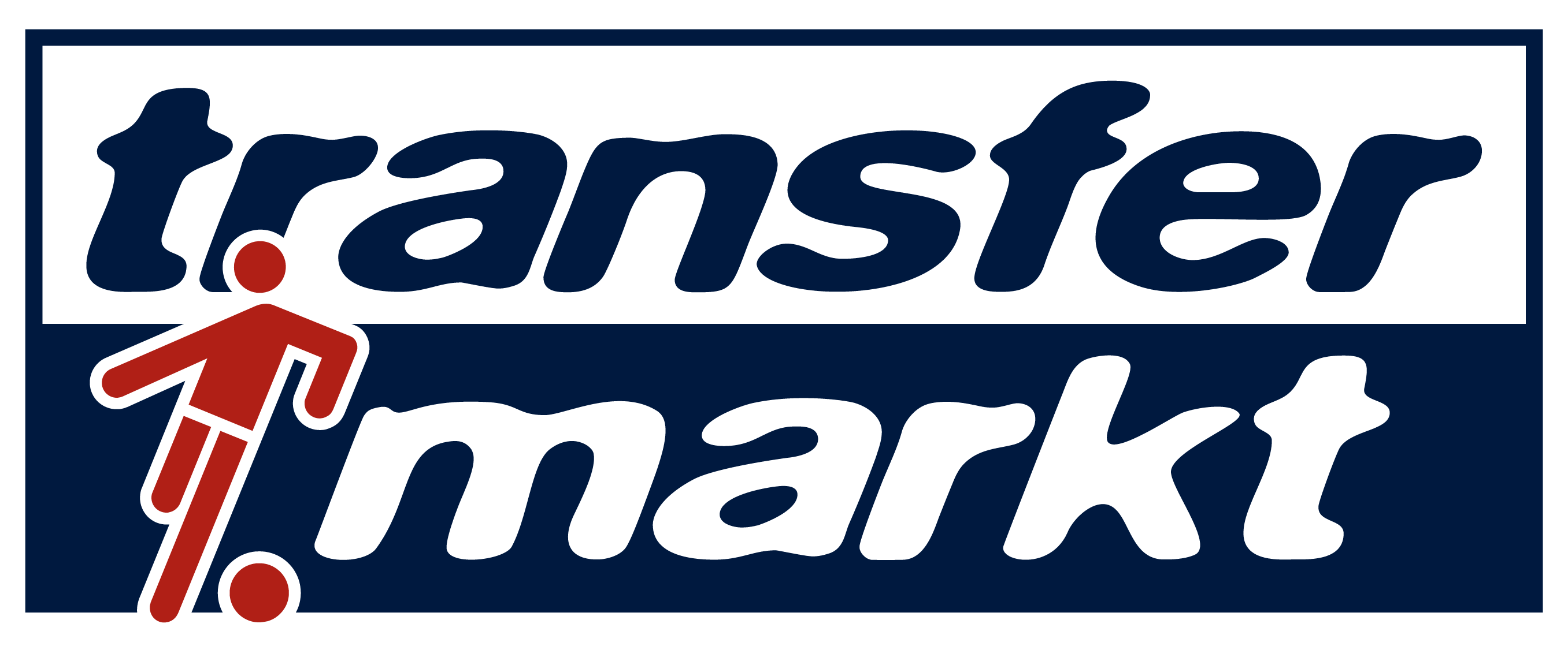 Logo of the German footbal comprasion website Transfermarkt